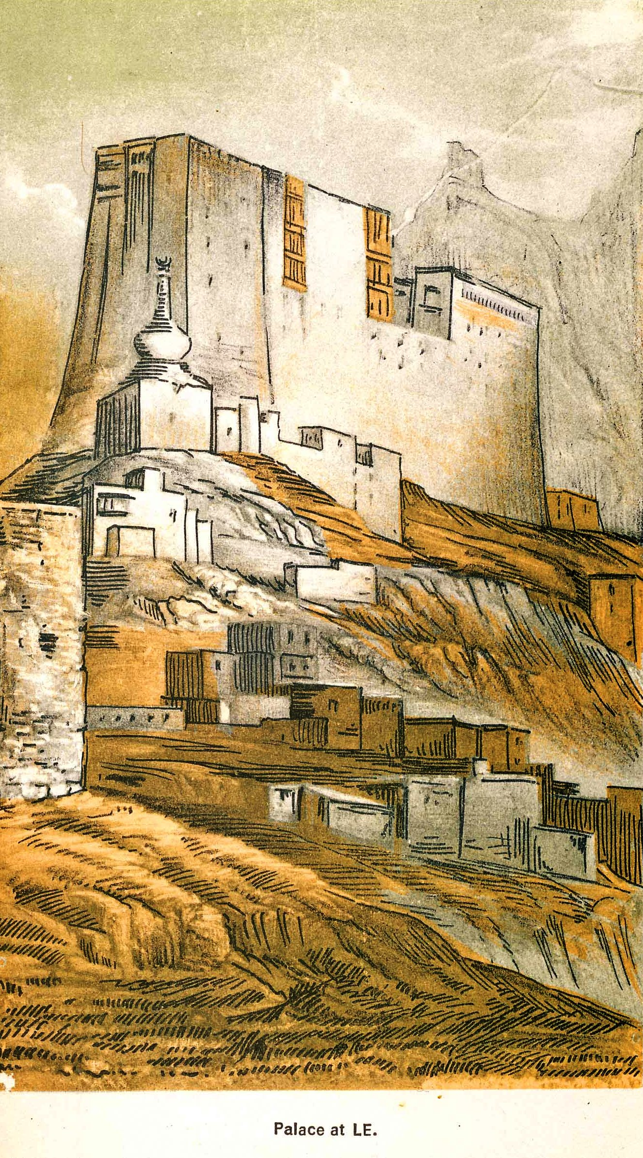 Scanned image from the book which was first published in 1854 and has been long out of copyright.